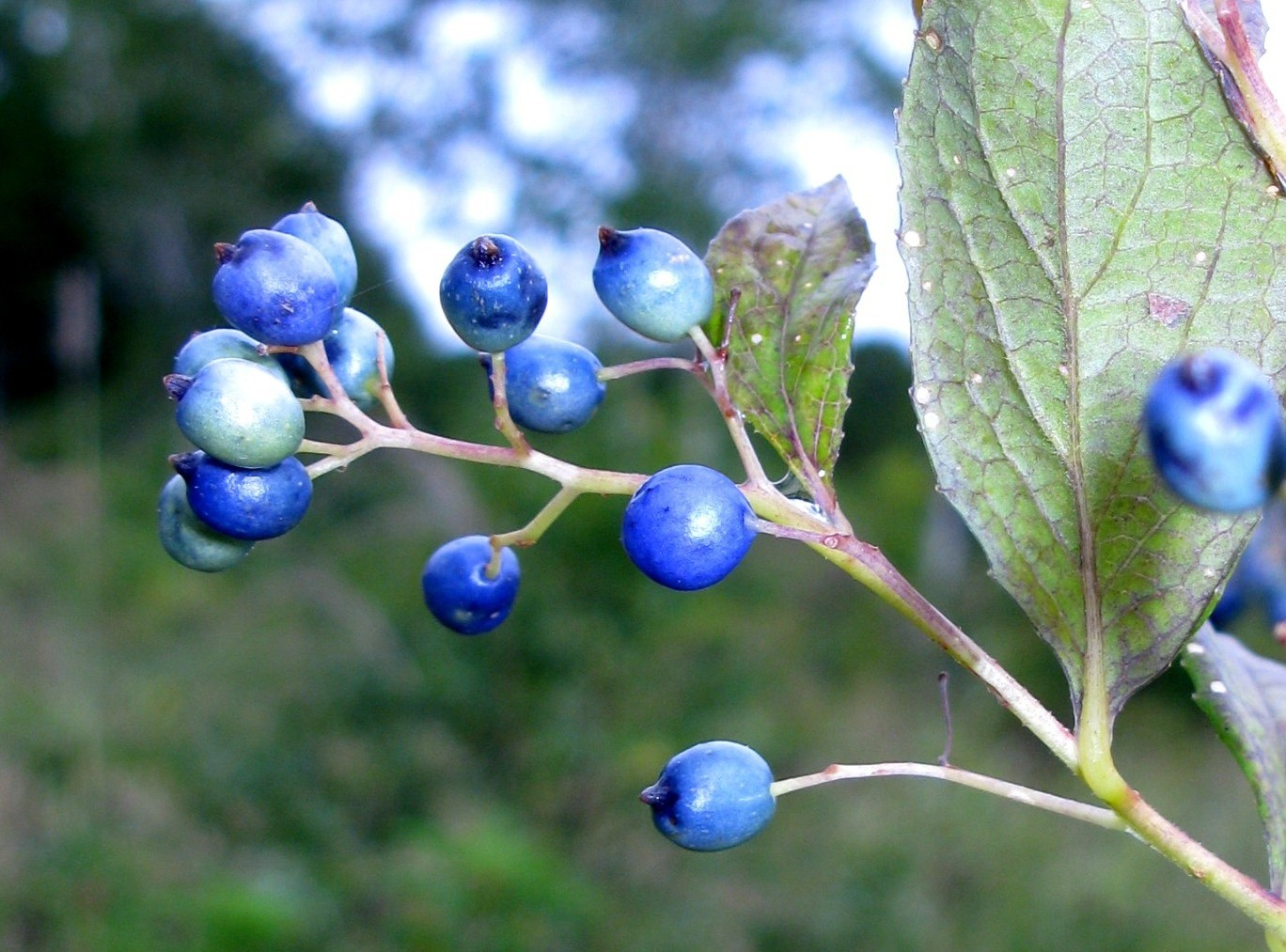 Symplocos sawafutagi, Aizu area, Fukushima pref., Japan